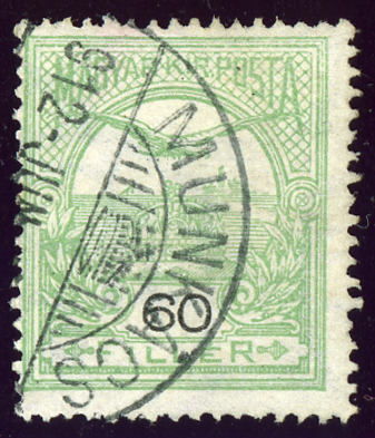 Kingdom of Hungary 60 fillér stamp, green (SG167) issue 1908, Hungarian cancelled at MUNKÁCS (east of Slovakia, now in Ukraine). Michel N°104.